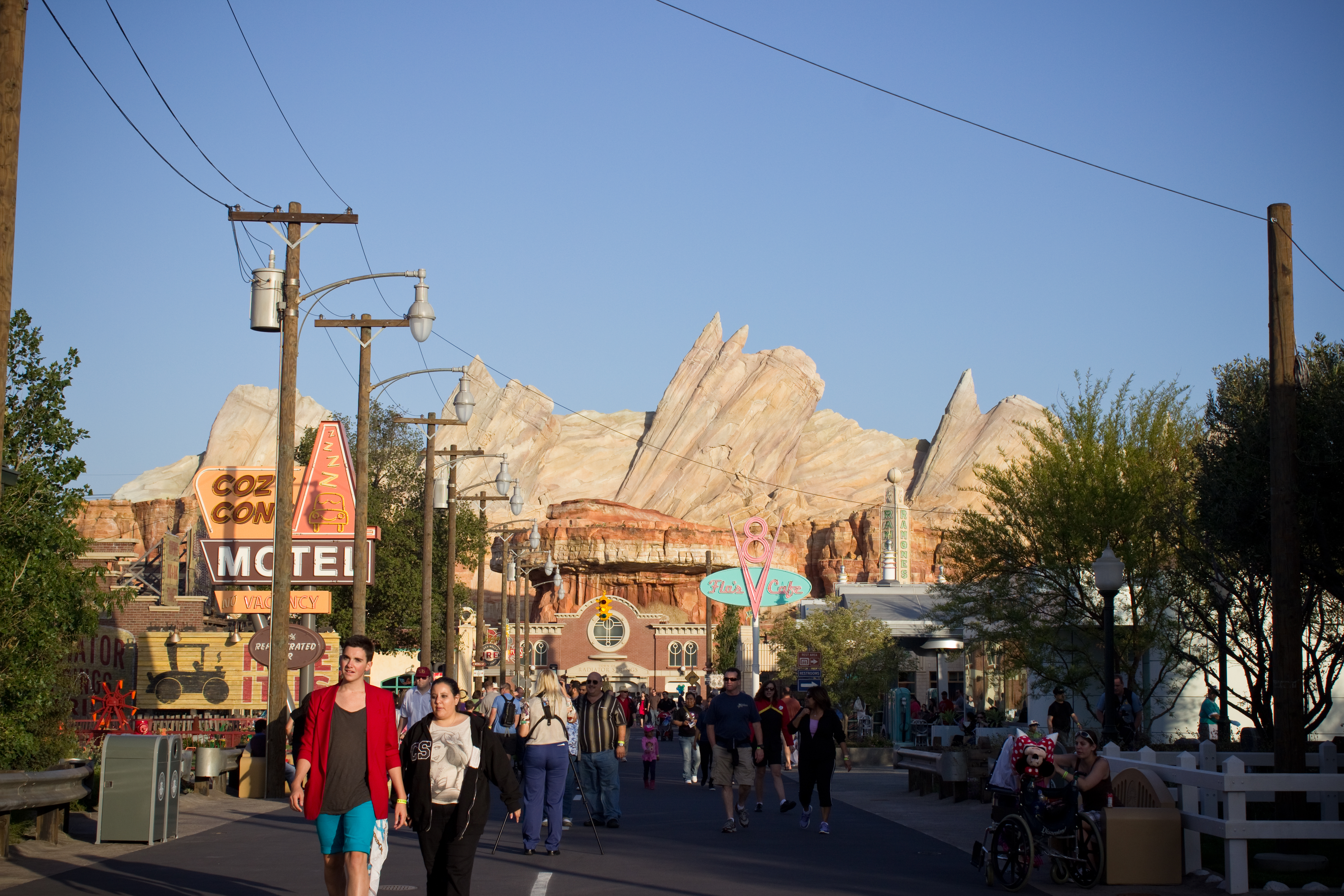 The gorgeous and amazingly detailed Radiator Springs in Cars Land at Disney California Adventure.